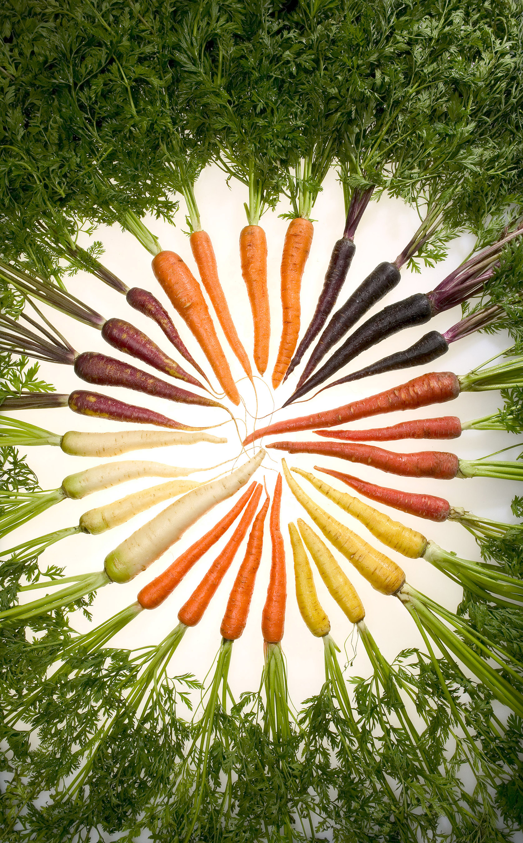 Original caption from the USDA: "ARS researchers have selectively bred carrots with pigments that reflect almost all colors of the rainbow. More importantly, though, they're very good for your health."